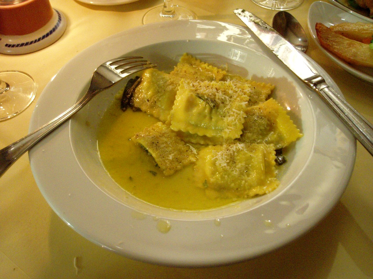 Ravioli burro e salvia. Very good ravioli, nice and al dente, just right. These are vegetarian, with spinach and a cottage cheese filling. At La Barca, Lower Marsh. Links: Randomness Guide to London